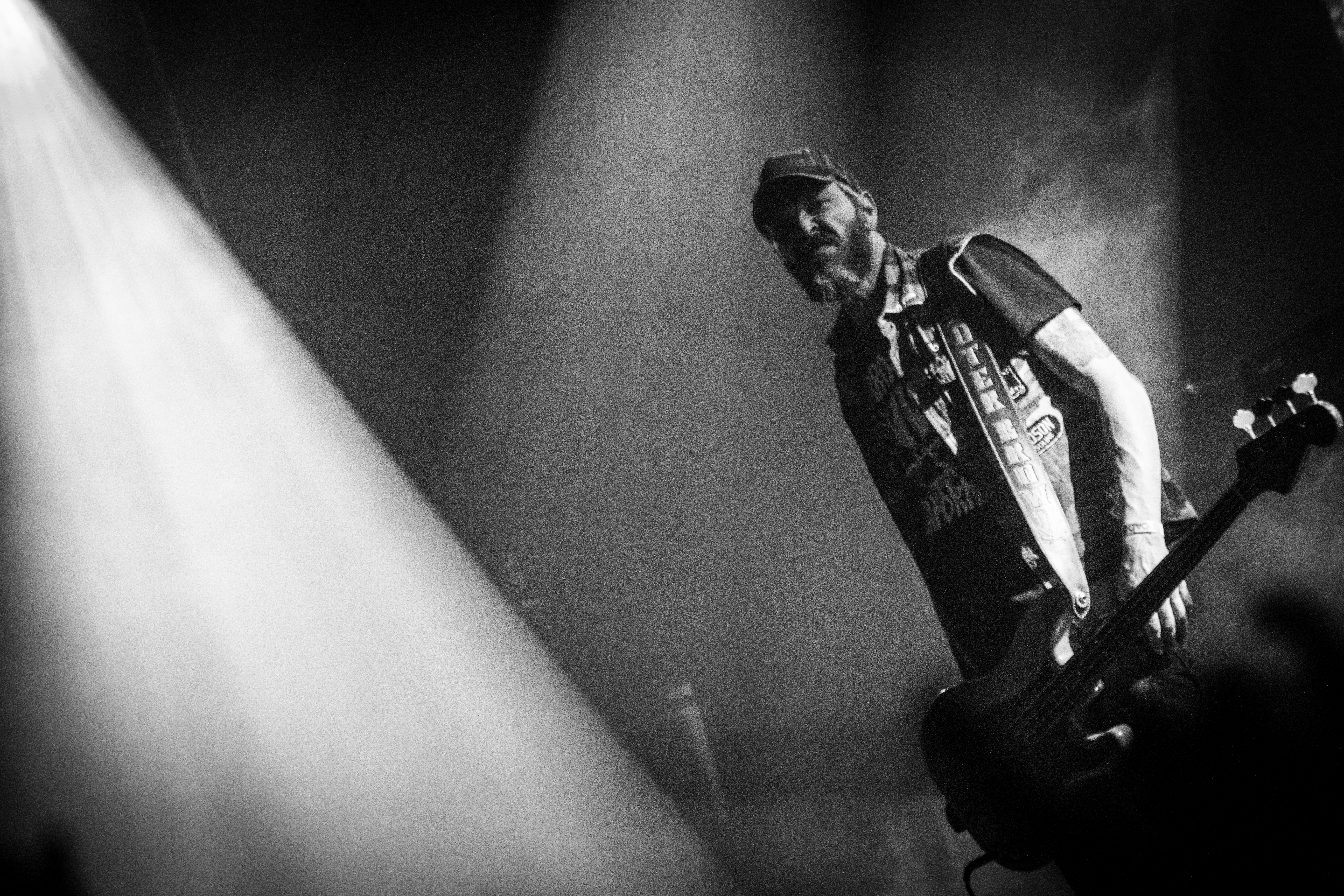 Bongzilla live at Roadburn Festival, Tilburg, April 2017